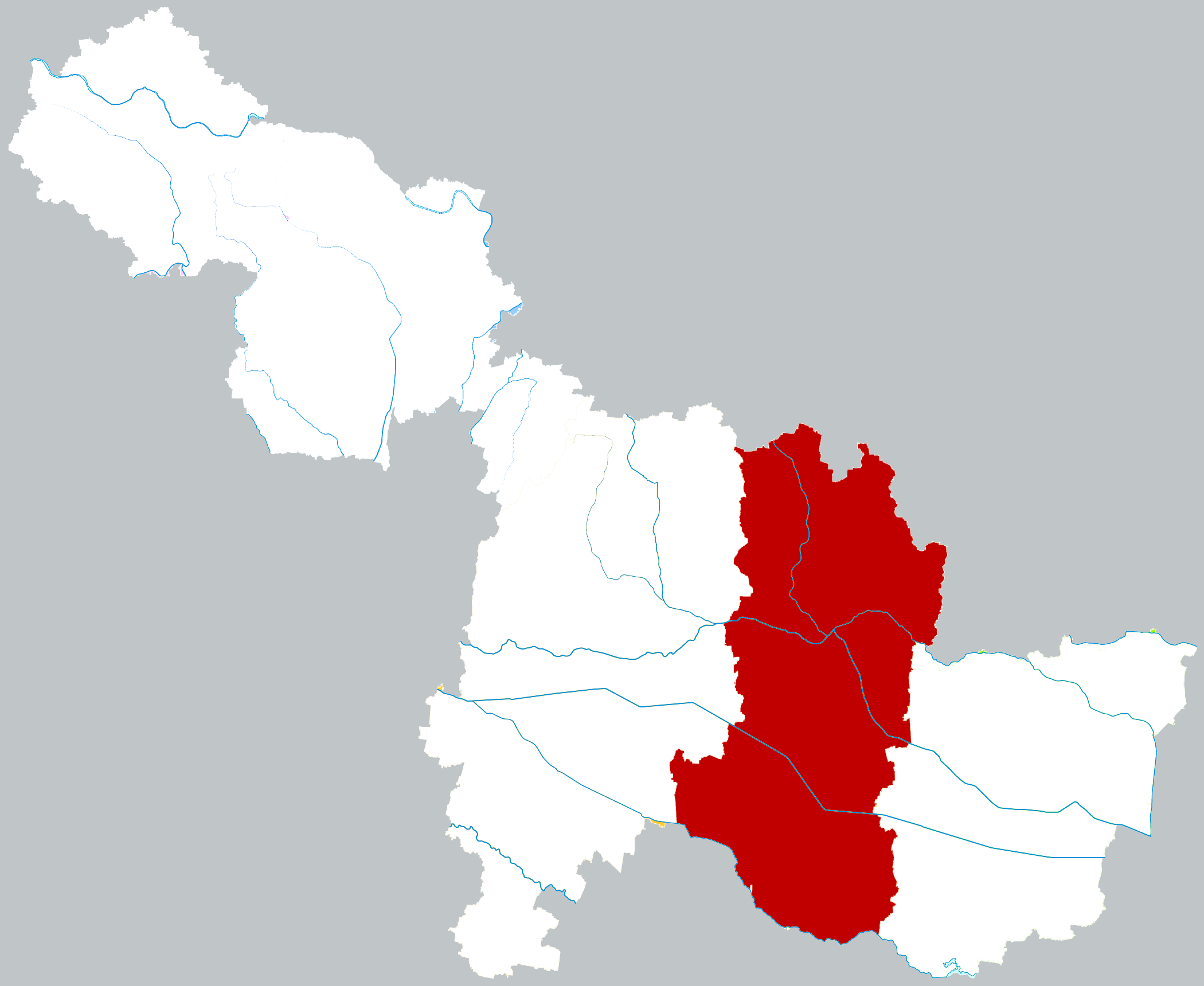 Location of Lingbi county in Suzhou city, Anhui province, China